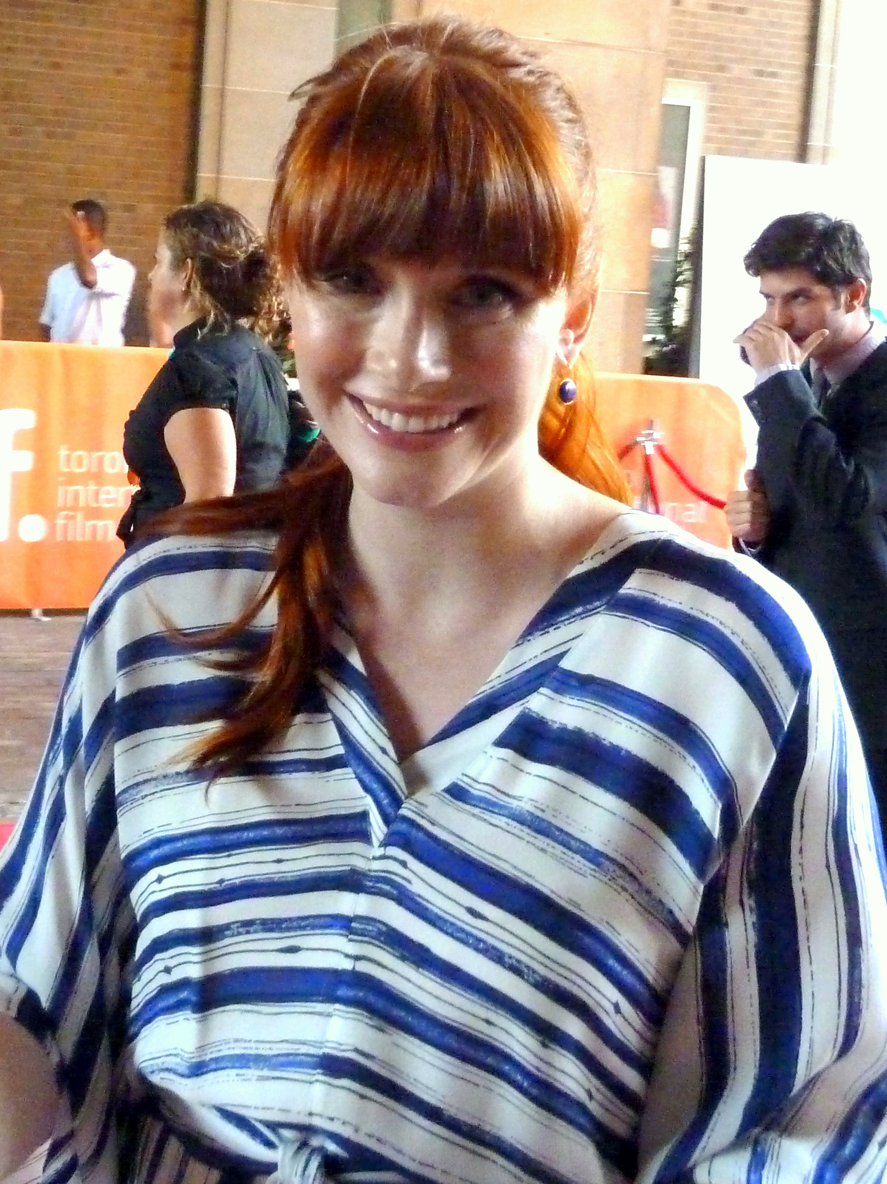 Bryce Dallas Howard at the Toronto International Film Festival 2011.